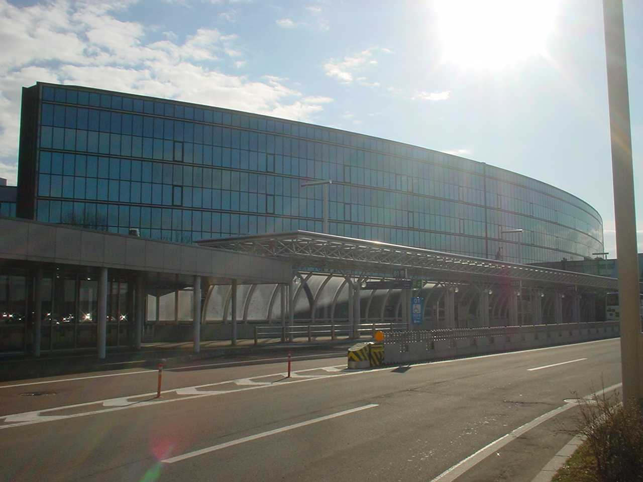 New_Chitose_Airport in Hokkaido, Japan